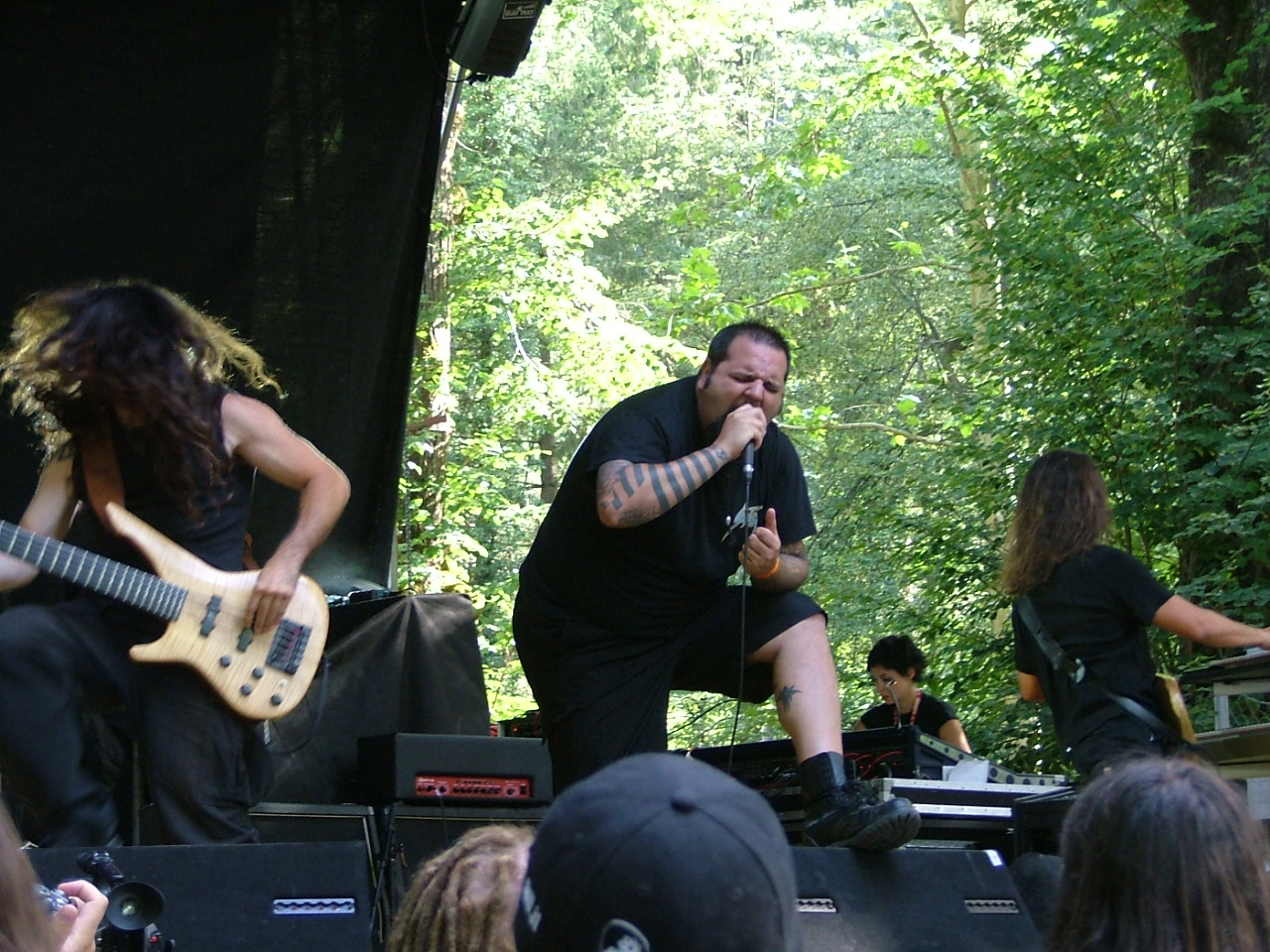 Italian death metal band Sadist at the Metalcamp in Tolmin